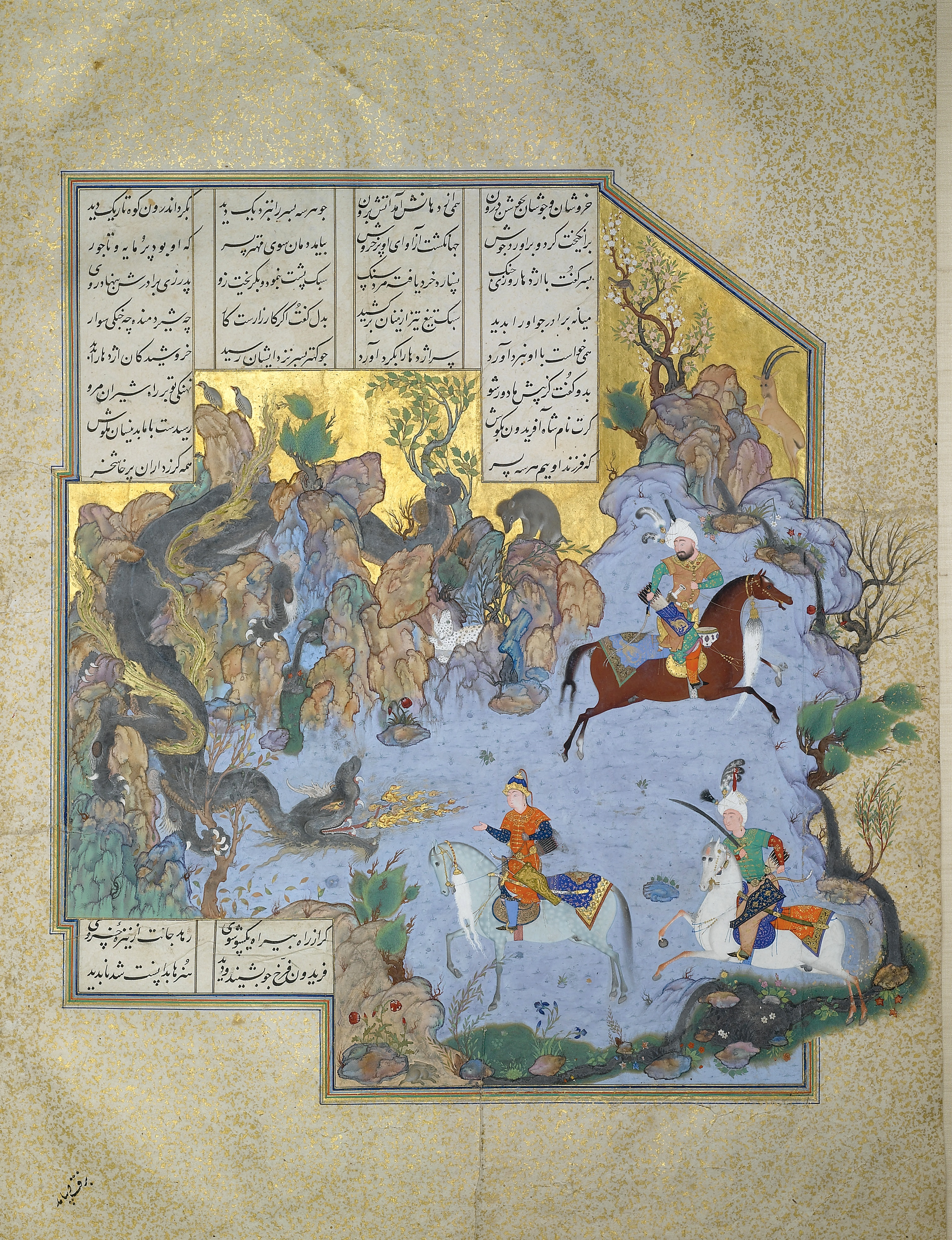 FARIDUN IN THE GUISE OF A DRAGON TESTS HIS SONS: ILLUSTRATED FOLIO (F.42) FROM THE SHAHNAMEH OF SHAH TAHMASP, ATTRIBUTED TO AQA MIRAK, PERSIA, TABRIZ, ROYAL ATELIER, CIRCA 1525-35